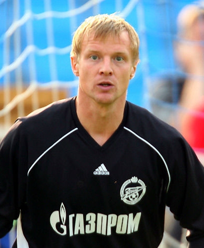 Vyacheslav Malafeev in action for FC Zenit St.Petersburg